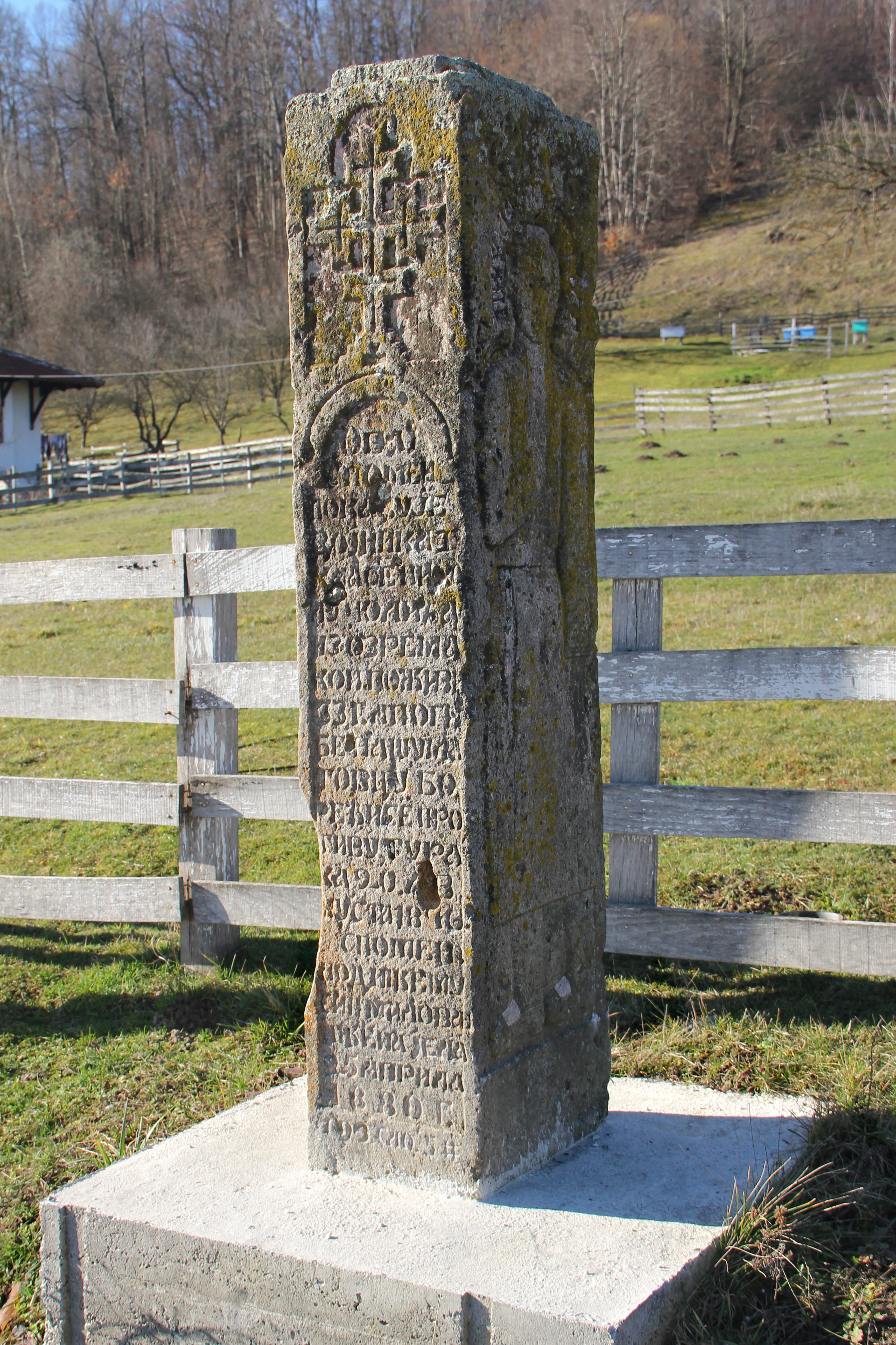 Old roadside memorial to a soldier Nikola Colic at the village of Ozrem (the municipality of Gornji Milanovac), Serbia.